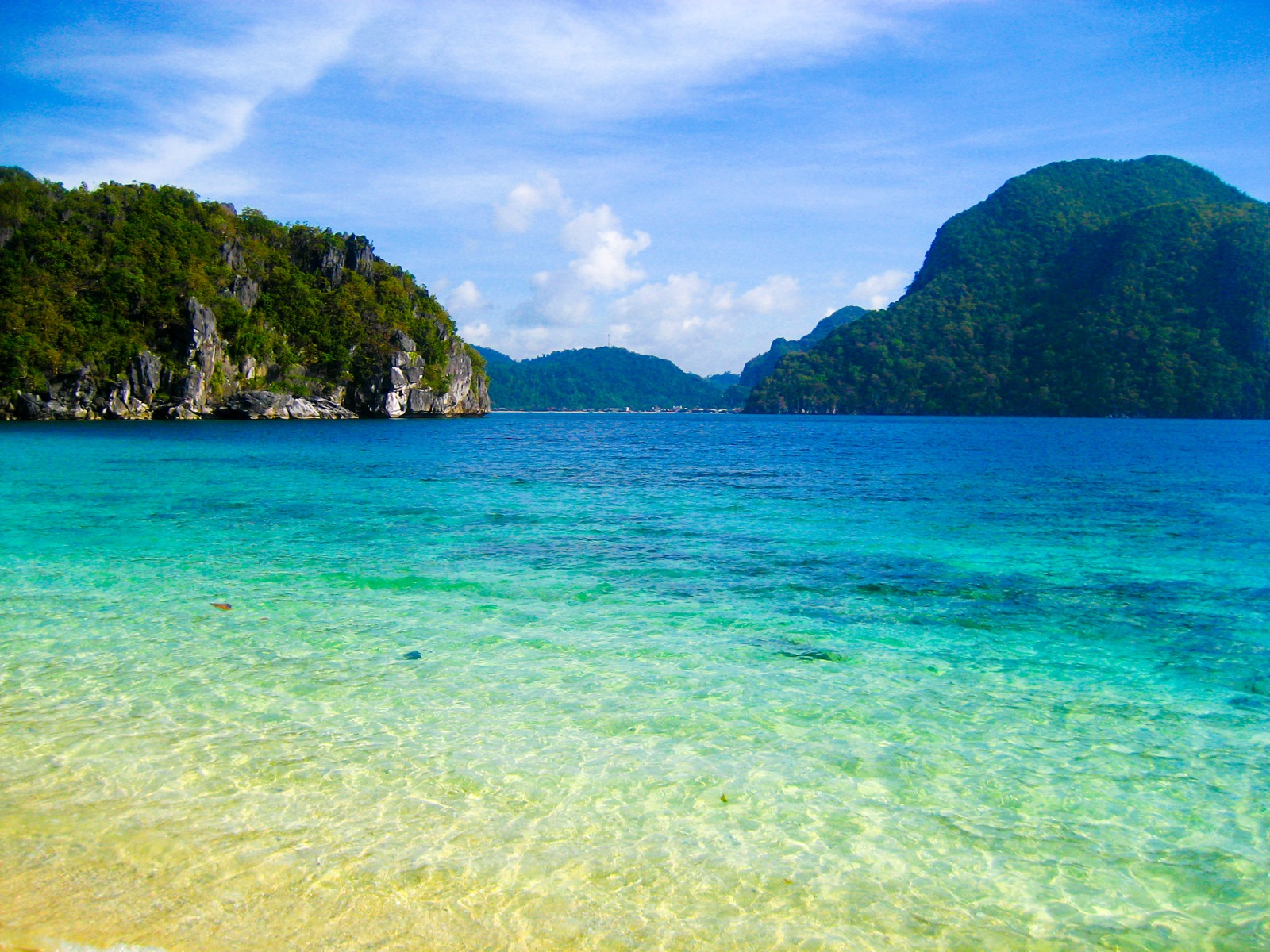 the town you can see in the background is where we paddled from in our little kayak. we had the beach to ourselves.